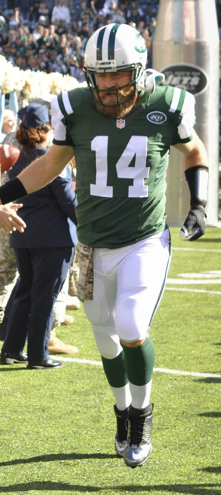 Ryan Fitzpatrick as a member of the New York Jets in 2015.